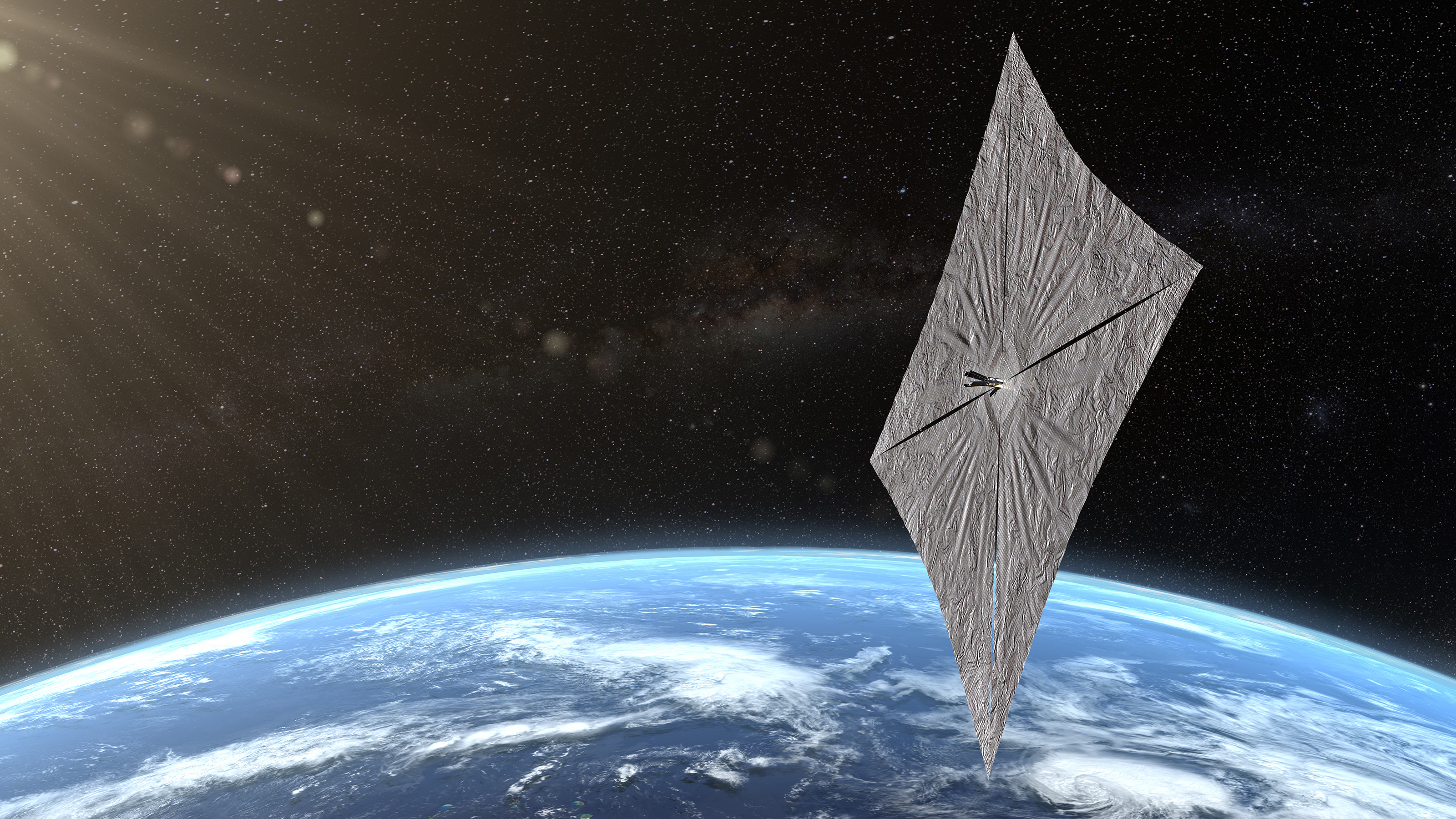 LightSail 2, a solar sail cubesat created by The Planetary Society, is shown "sailing" above the Earth in this artistic rendering. LightSail 2 launched on 25 June 2019 and deployed its sails to begin solar sailing on 23 July 2019.